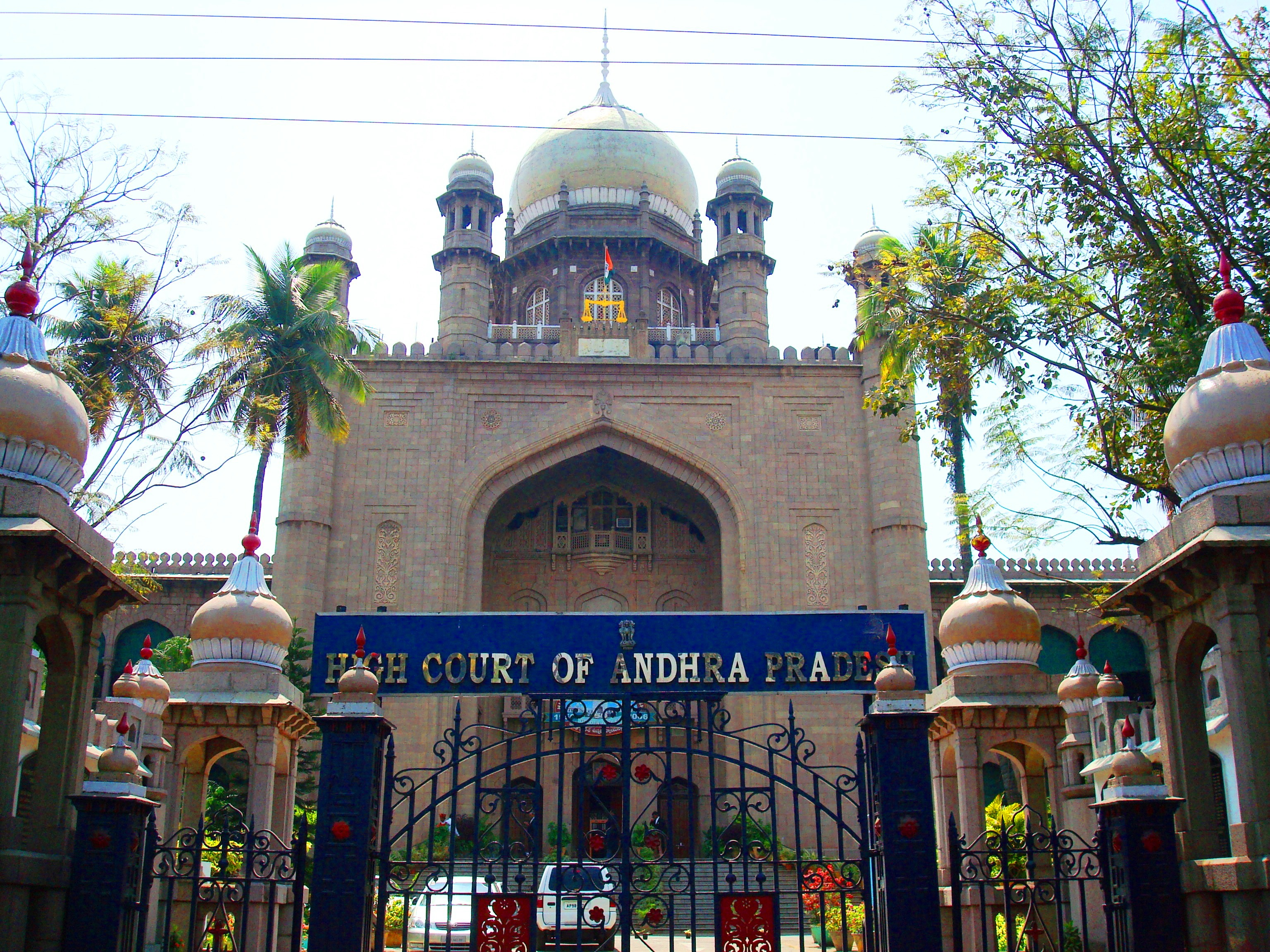 Hight court of the state of Andhra pradesh located at hyderabad. self-photographed.